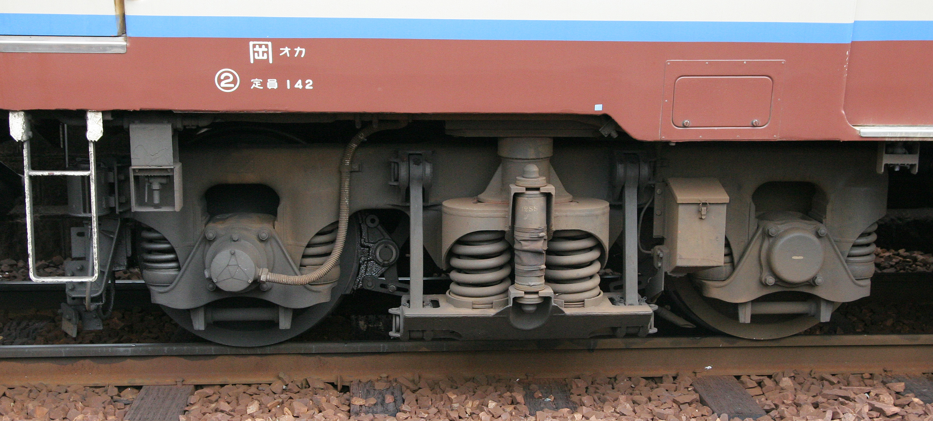 West Japan Railway Company kiha47-1005 DT22D